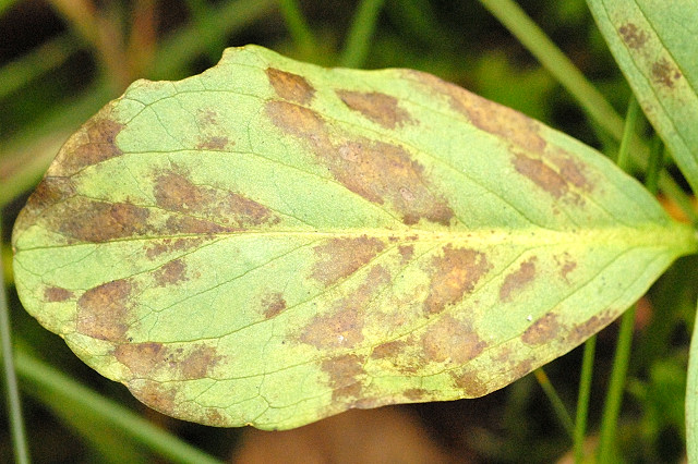 Cladochytrium menyanthis from Commanster, Belgium. If you think this is a different taxon, please contact James Lindsey.